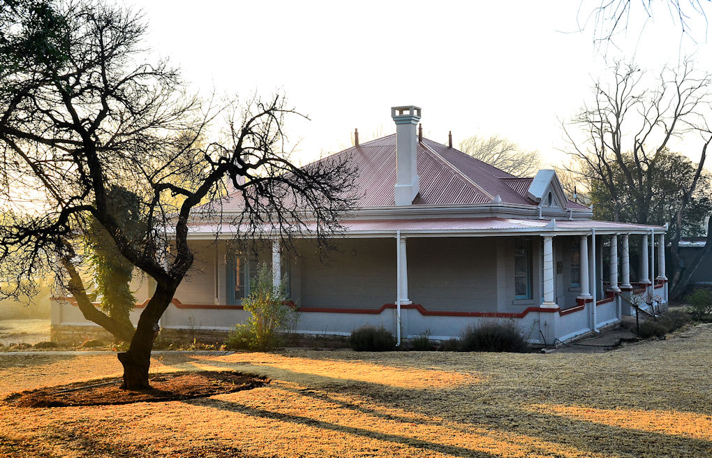 AG Visser House where the renowned Afrikaans poet Dr AG Visser lived and practiced as the local doctor. The house was built in 1890 and Visser wrote all his poems in the house.